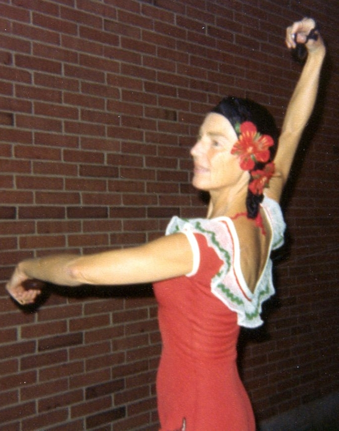 The American synchronized swimmer Beulah Gundling in her routine Vivo to music by Albéniz (IAAA Festival at Glenbrook North High School - Illinois, May 1977).